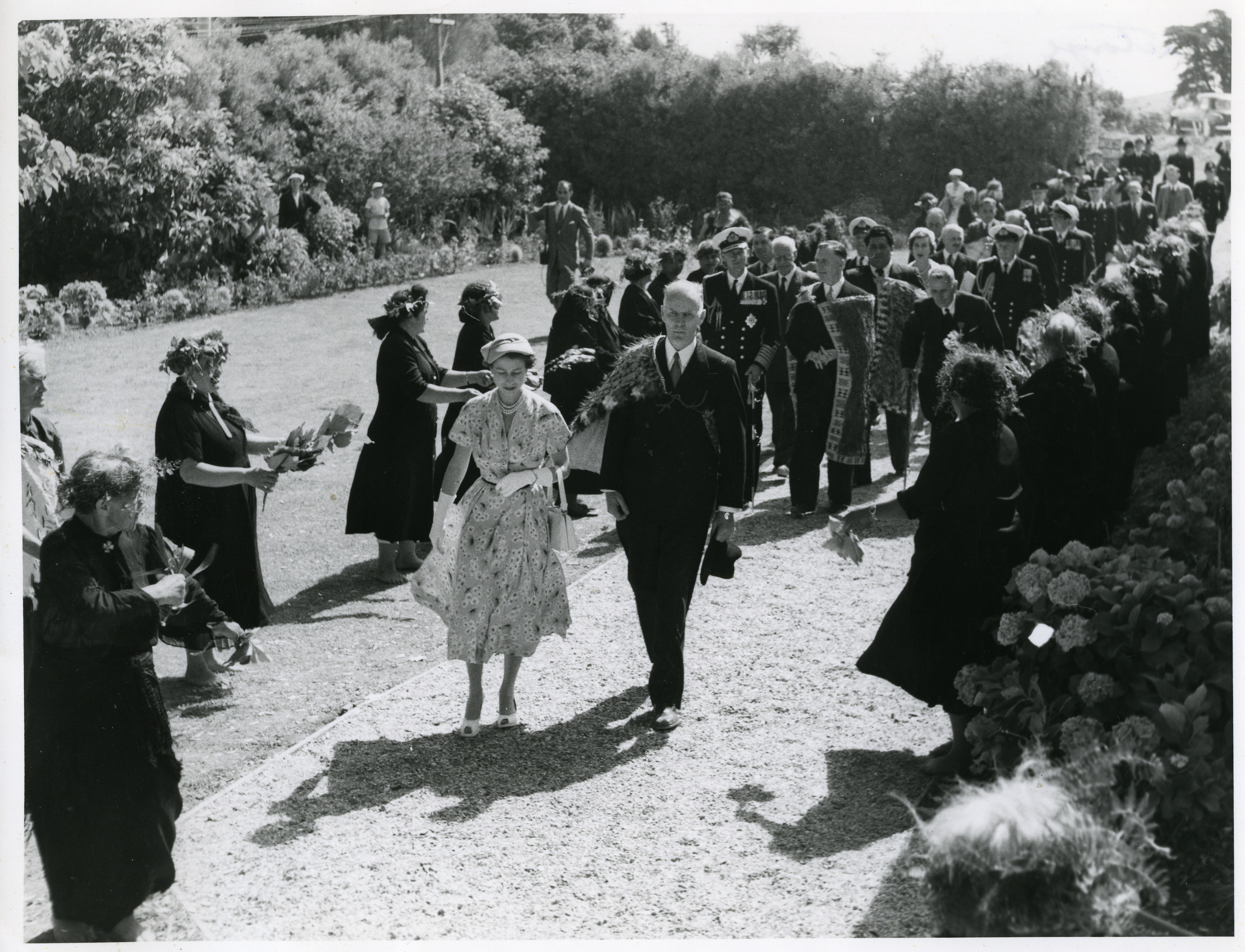 Elizabeth II is pictured here on the Royal Tour of New Zealand of 1953/54. The image is sourced from Communicate New Zealand - National Archives - CNZ Collection. Archives New Zealand Reference: AAQT 6538 W3537 box 1